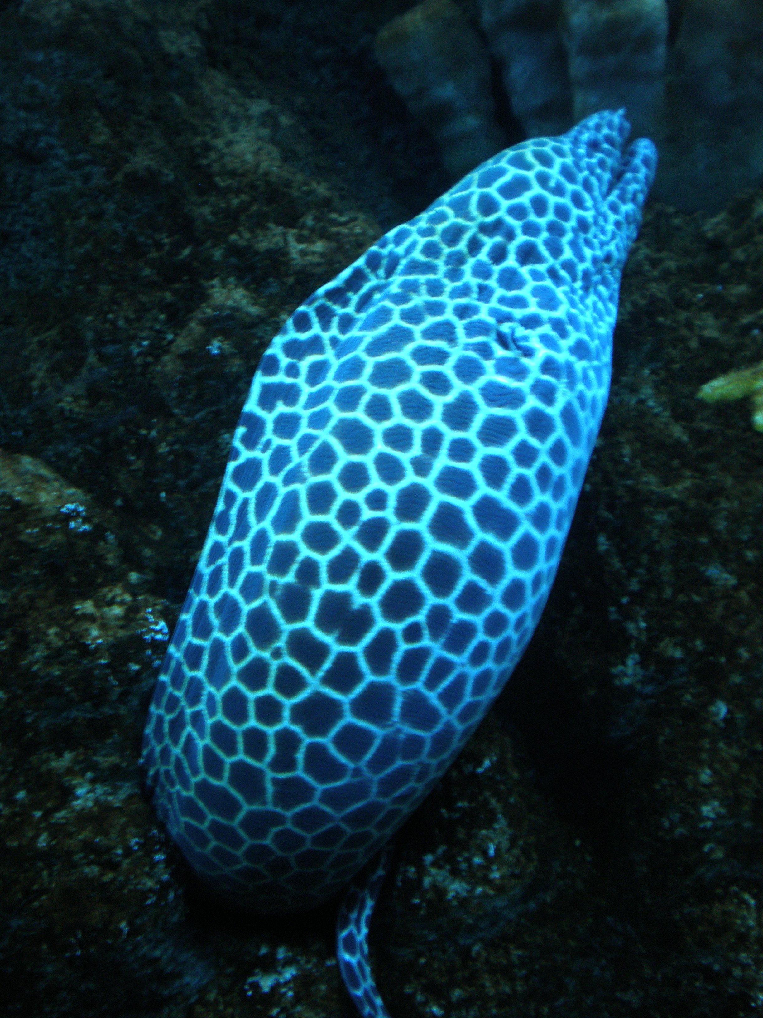 A Laced moray (Gymnothorax favagineus) at the Steinhart Aquarium of the California Academy of Sciences in San Francisco.